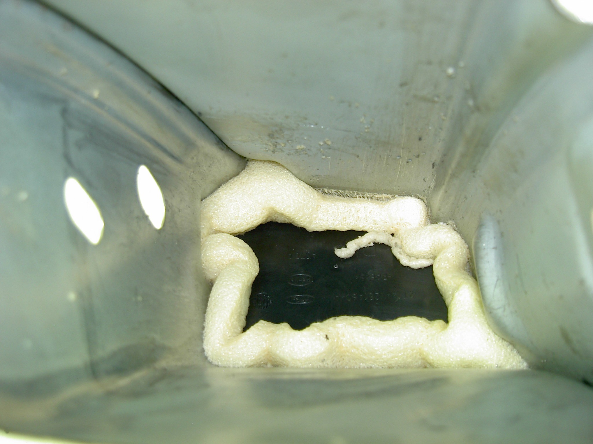 Expandable cavity filler insert ("pillar filler") after heating. The carrier (black) is PA 6.6 (high melting point for good heat resistance). Formulation: functionalized polymer(s) (for example EVA) + for example amine-functionalized latent curing agent(s) + latent blowing agent(s). After heating, expansion ratio of the yellow composition is here ~900%.